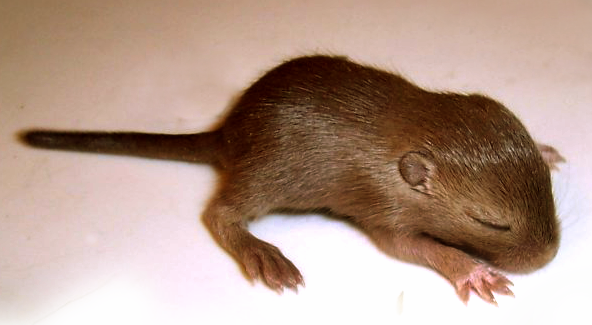 This little burmese was only 13 days old when I took this picture. I only had himi out of the nest for a few seconds and then I put him right back with his mom.